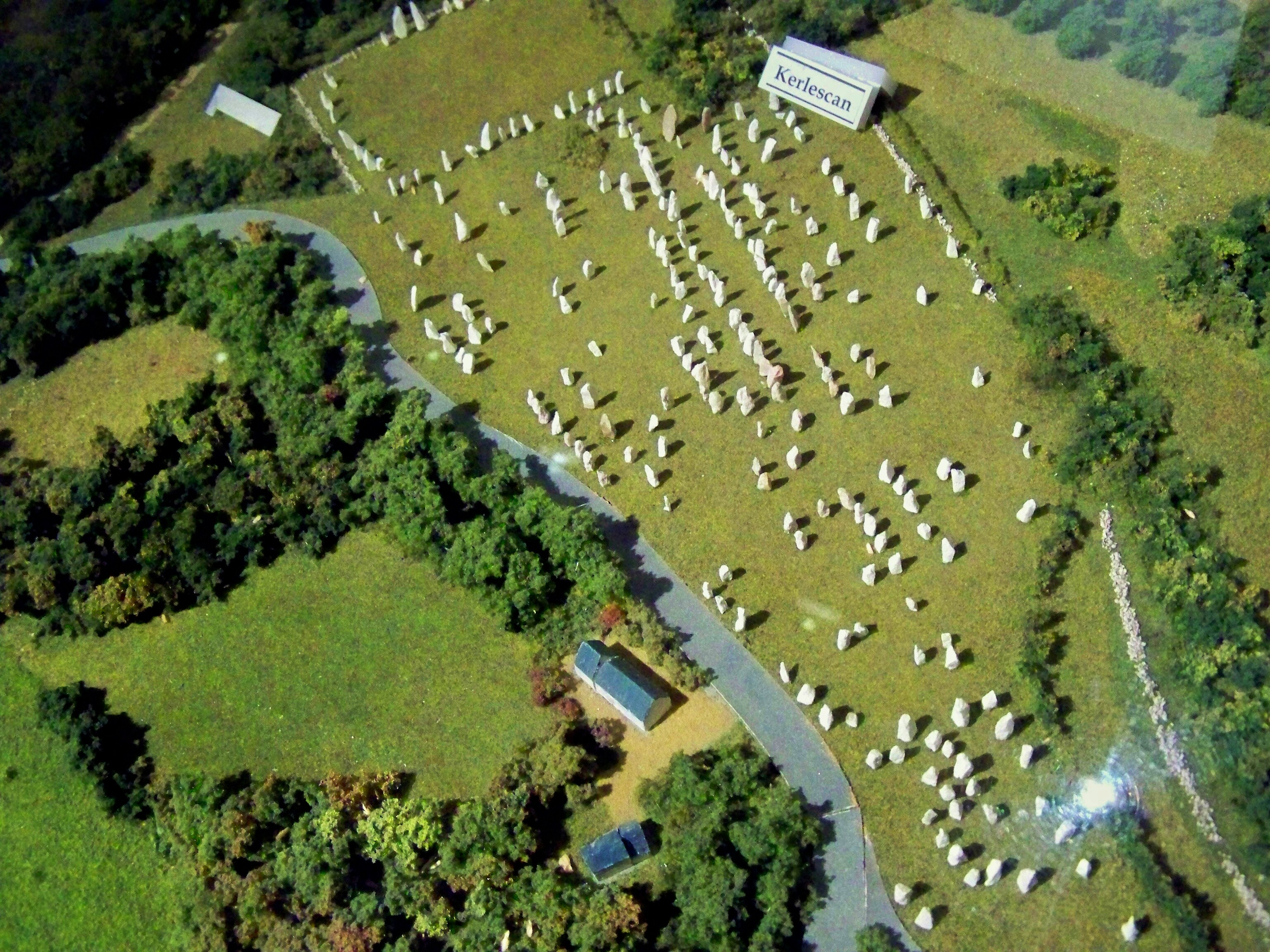 Kerlescan alignments, Carnac, France